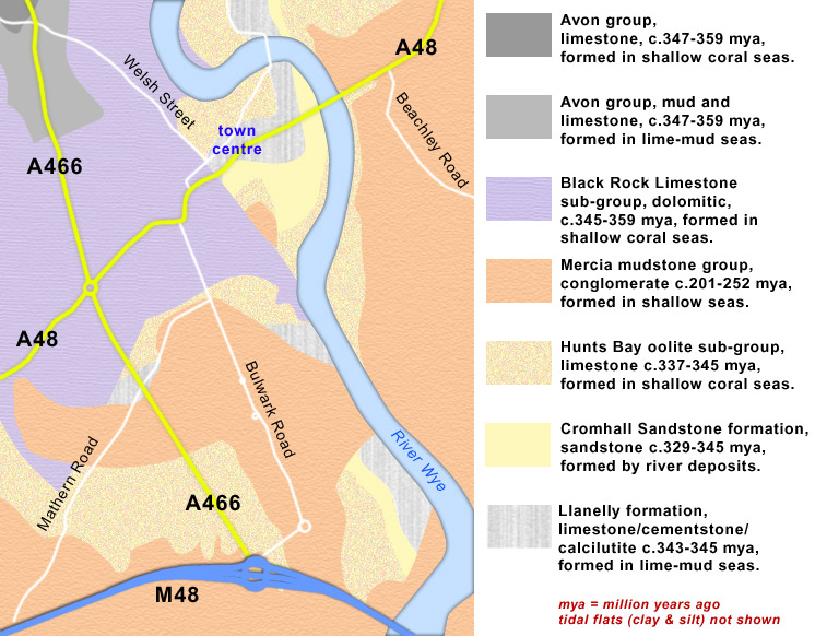 A map of the bedrock underlying Chepstow, with important roads indicated. The key is adapted from BGS notes.